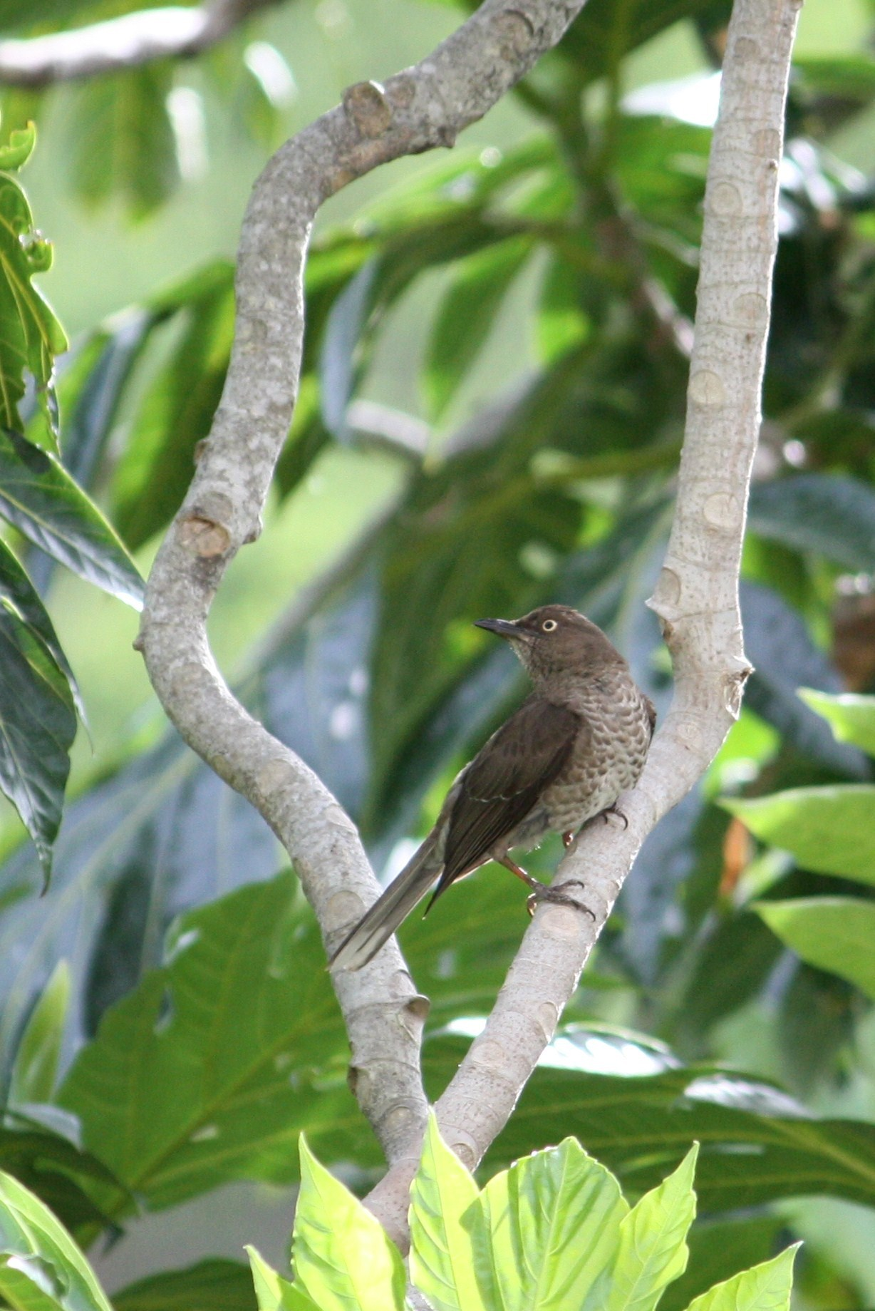 Scaly-breasted Thrasher (Allenia fusca) perched on a breadfruit tree. Coulibistrie, Dominica.